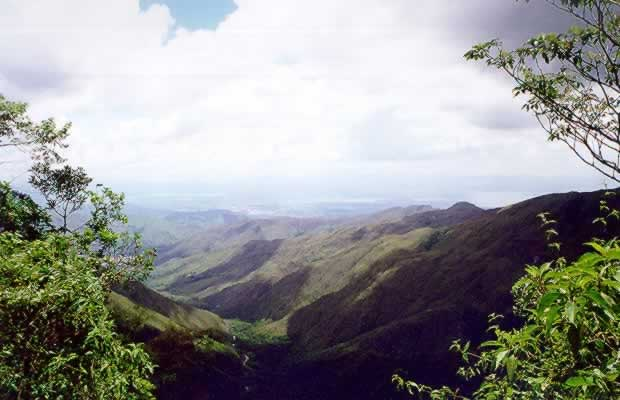 Henri Pittier National Park, in the Venezuelan Coastal Range, created in 1937 between Aragua and Carabobo States, Venezuela.